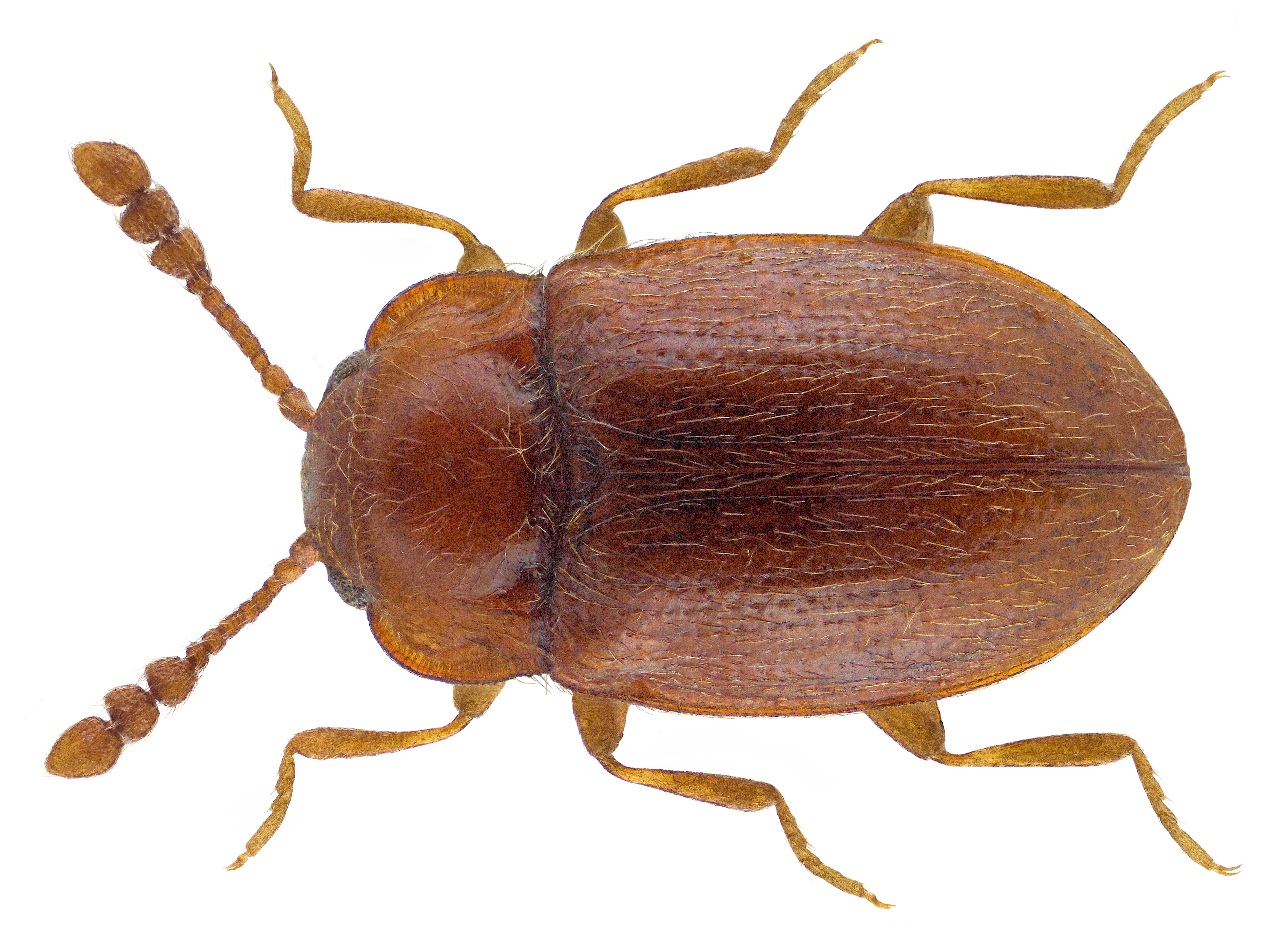 Family: Endomychidae Size: 2.0 mm (1.9 to 2.1 mm) Location: England, Norfolk, Heydon Origin: Europe, very rare Ecology: On moldy hardwood, often together with ants leg.det. D.R.Nash, 3.VI.1971 Coll. Oxford University Museum of Natural History Photo: U.Schmidt, 2018